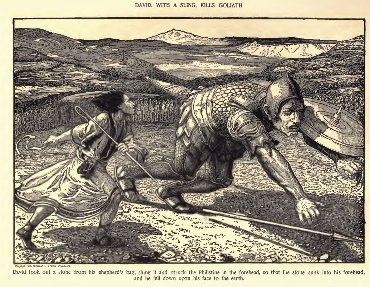 David and Goliath from The Psalms of David, illustrated by Louis Rhead, 1900